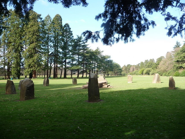 Newport: Tredegar House Country Park A large public park which is centred on 1182803. The stone circle in the foreground was installed in 1988.